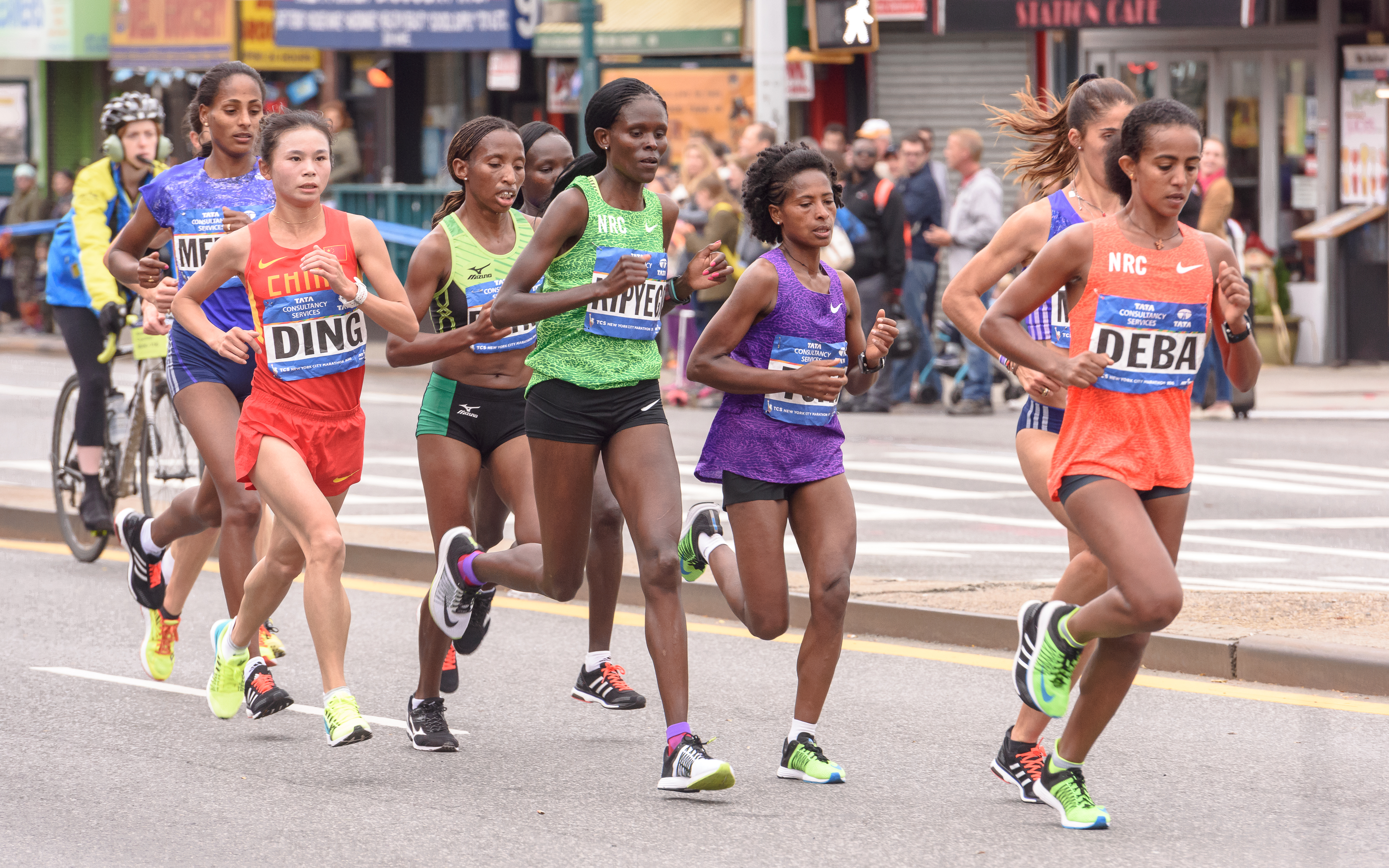 Lead women along Fourth Avenue in Brooklyn